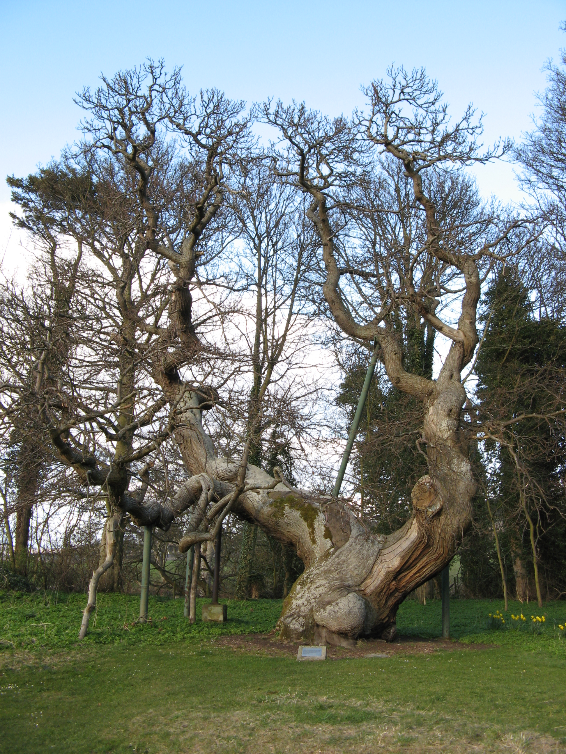 Balmerino Abbey, Fife, Scotland. "Queen Ermengarde's Chestnut", a sweet chestnut supposedly planted in the 13th century, but more likely dating from the 16th century.